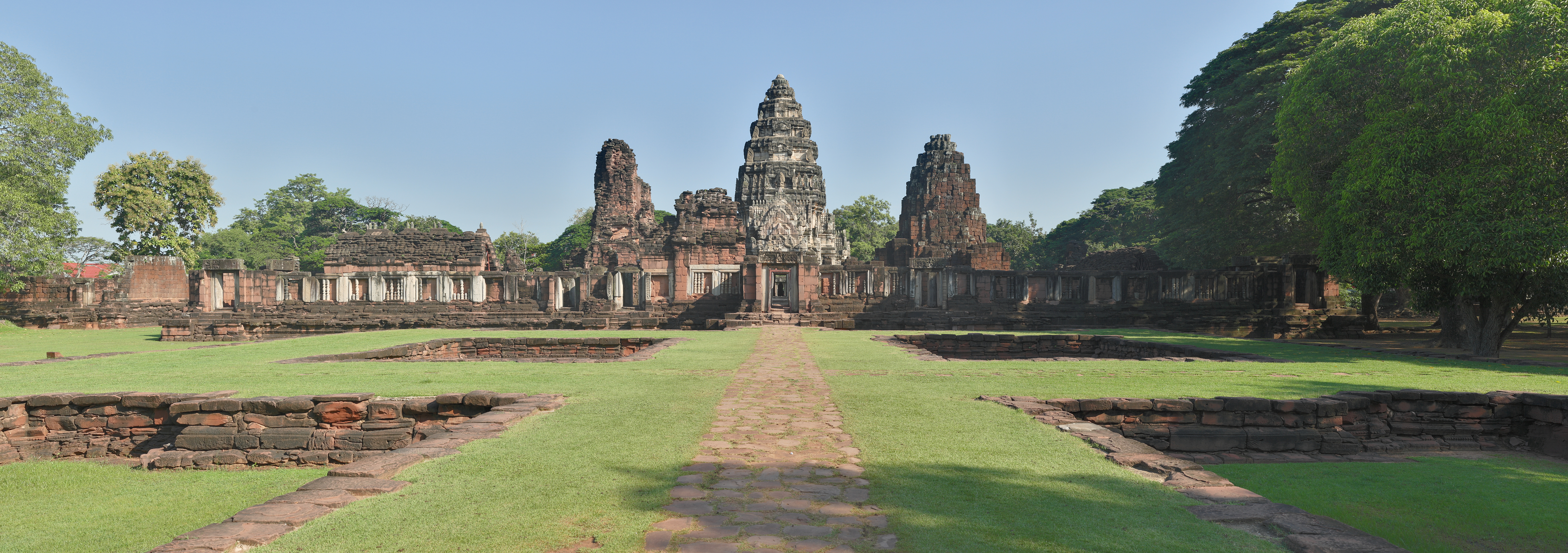 Phimai temple, in Phimai city, Northeast Thailand.